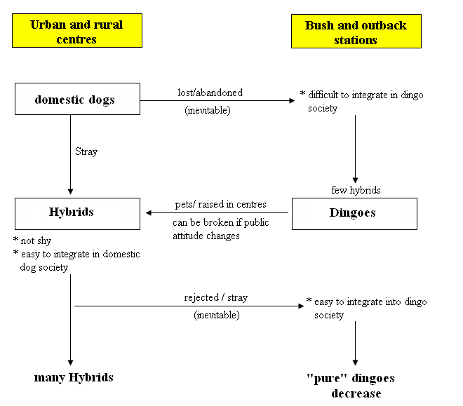 ways of interbreeding between dingoes and other domestic dogs, after Corbett (only in german)